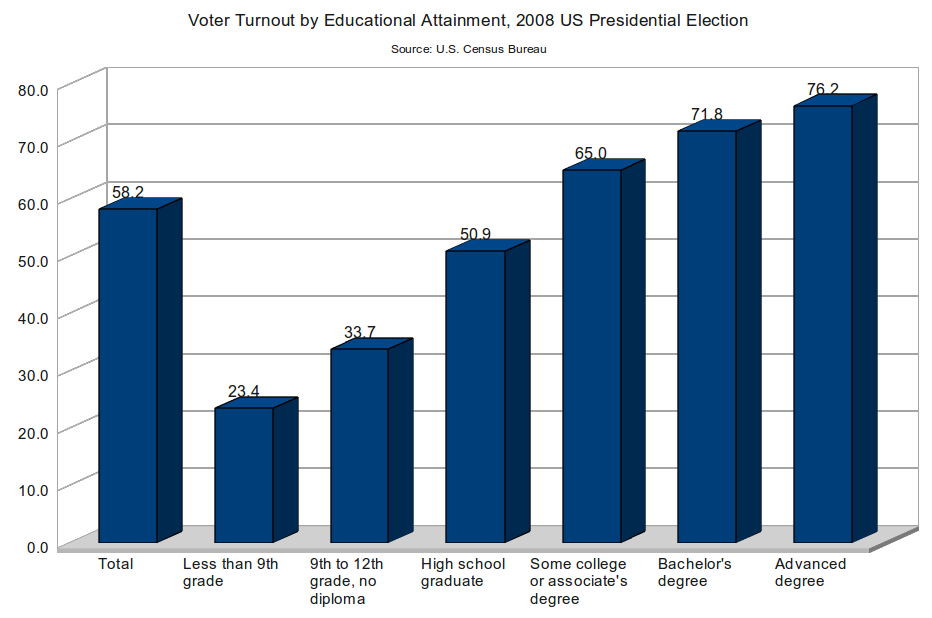 This is a chart illustrating the different rates in voting in the 2008 U.S. Presidential Election by educational attainment. The data come from the U.S. Census Bureau Table 5, percent of total population over 18.